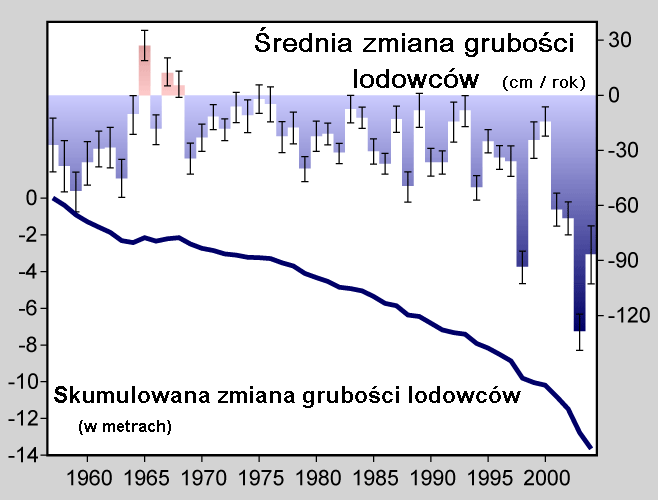 This figure shows the average rate of thickness change in mountain glaciers around the world. This information, known as the glaciological mass balance, is found by measuring the annual snow accumulation and subtracting surface ablation driven by melting, sublimation, or wind erosion. These measurements do not account for thinning associated with iceberg calving, flow related thinning, or subglacial erosion. All values are corrected for variations in snow and firn density and expressed in meters of water equivalent (Dyurgerov 2002). Measurements are shown as both the annual average thickness change and the accumulated change during the fifty years of measurements presented. Years with a net increase in glacier thickness are plotted upwards and in red; years with a net decrease in glacier thickness (i.e. positive thinning) are plotted downward and in blue. Only three years in the last 50 have experienced thickening in the average. Systematic measurements of glacier thinning began in the 1940s, but fewer than 15 sites had been measured each year until the late 1950s. Since then more than 100 sites have contributed to the average in some years (Dyurgerov 2002, Dyurgerov and Meier 2005). Error bars indicate the standard error in the mean. Other observations, based on glacier length records, suggest that glacier retreat has occurred nearly continuously since the early 1800s and the end of the little ice age, but variations in rate have occurred, including a significant acceleration during the twentieth century that is believed to have been a response to global warming (Oerlemans 2005).